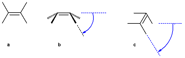 Angle strain definition in pyramidal cage alkenes